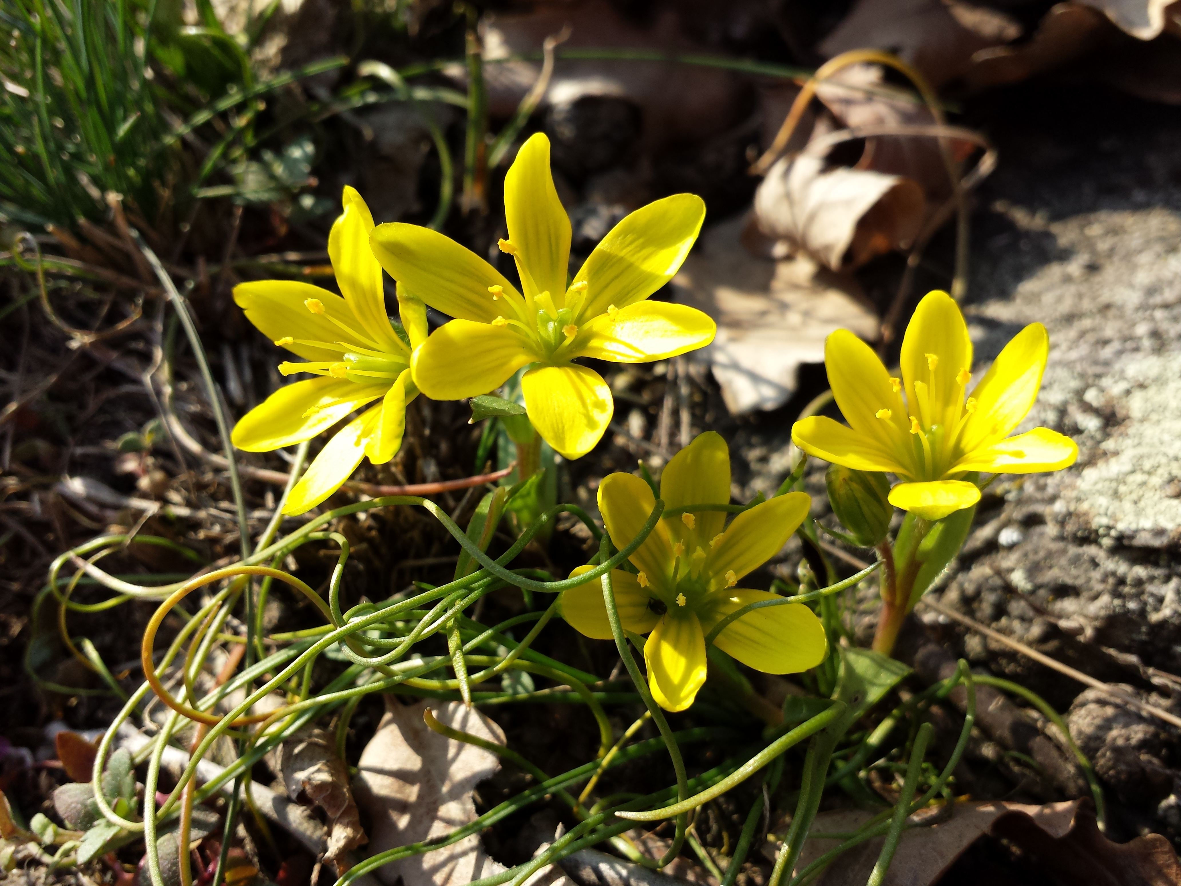 Habitus Taxon: Gagea bohemica (sensu Fischer et al. EfÖLS 2008 ISBN 978-3-85474-187-9) Location: Straning-Grafenberg, district Horn, Lower Austria - ca. 320 m a.s.l. Habitat: dry grassland over silicates at the border of a xerotherm oak wood